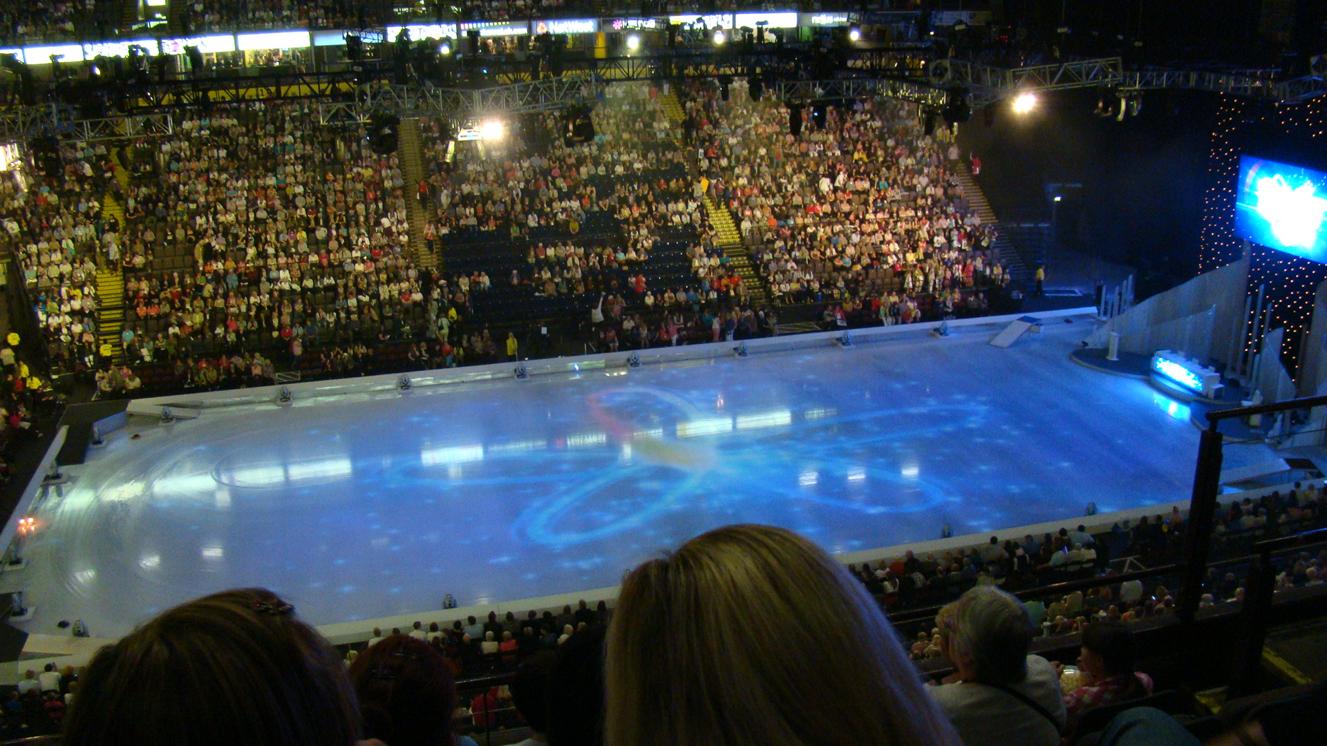 Manchester M.E.N Arena 1.30pm Sunday 1st May 2011.